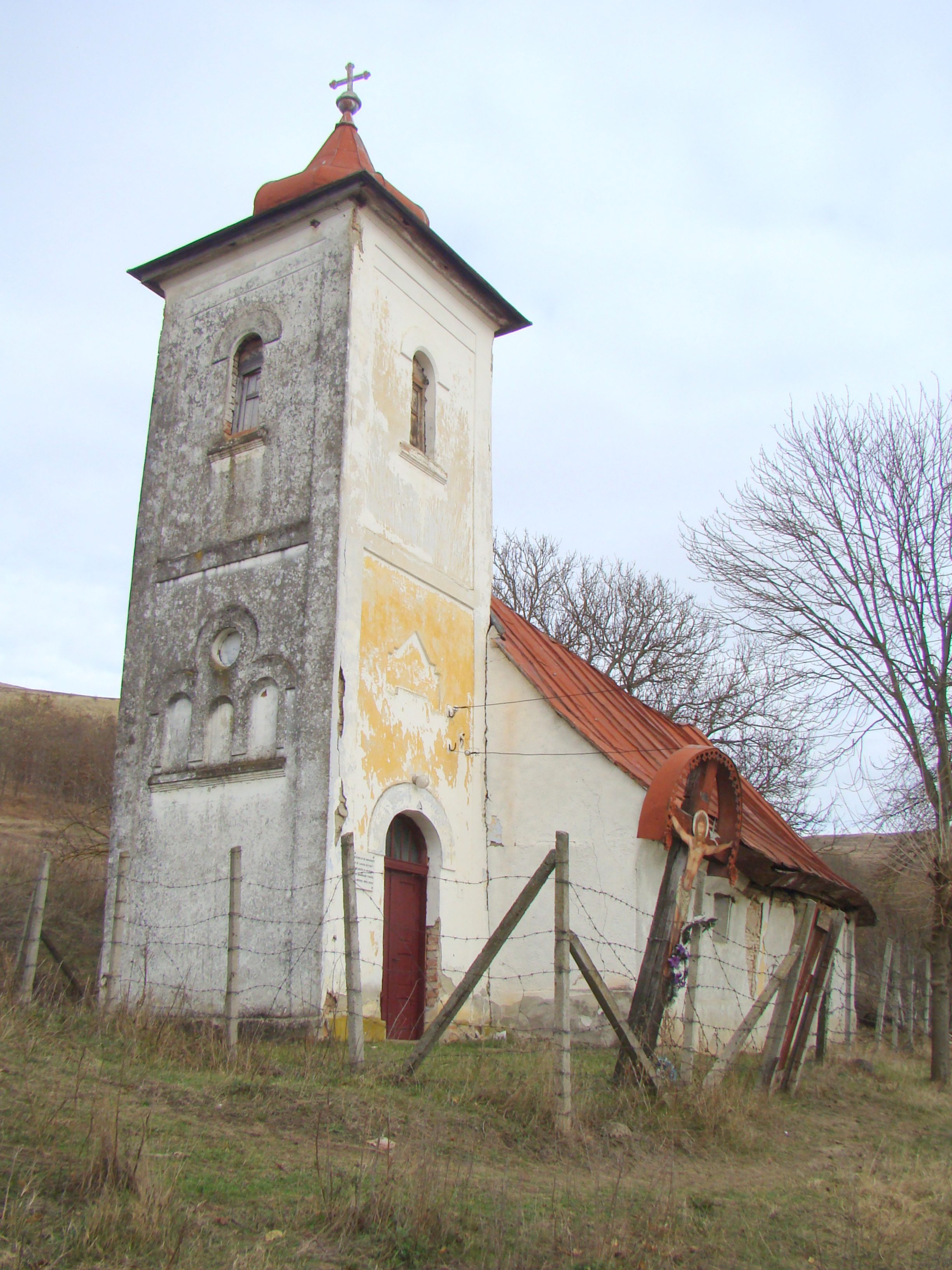 Church of the Dormition in Valea Sasului, Alba county, Romania